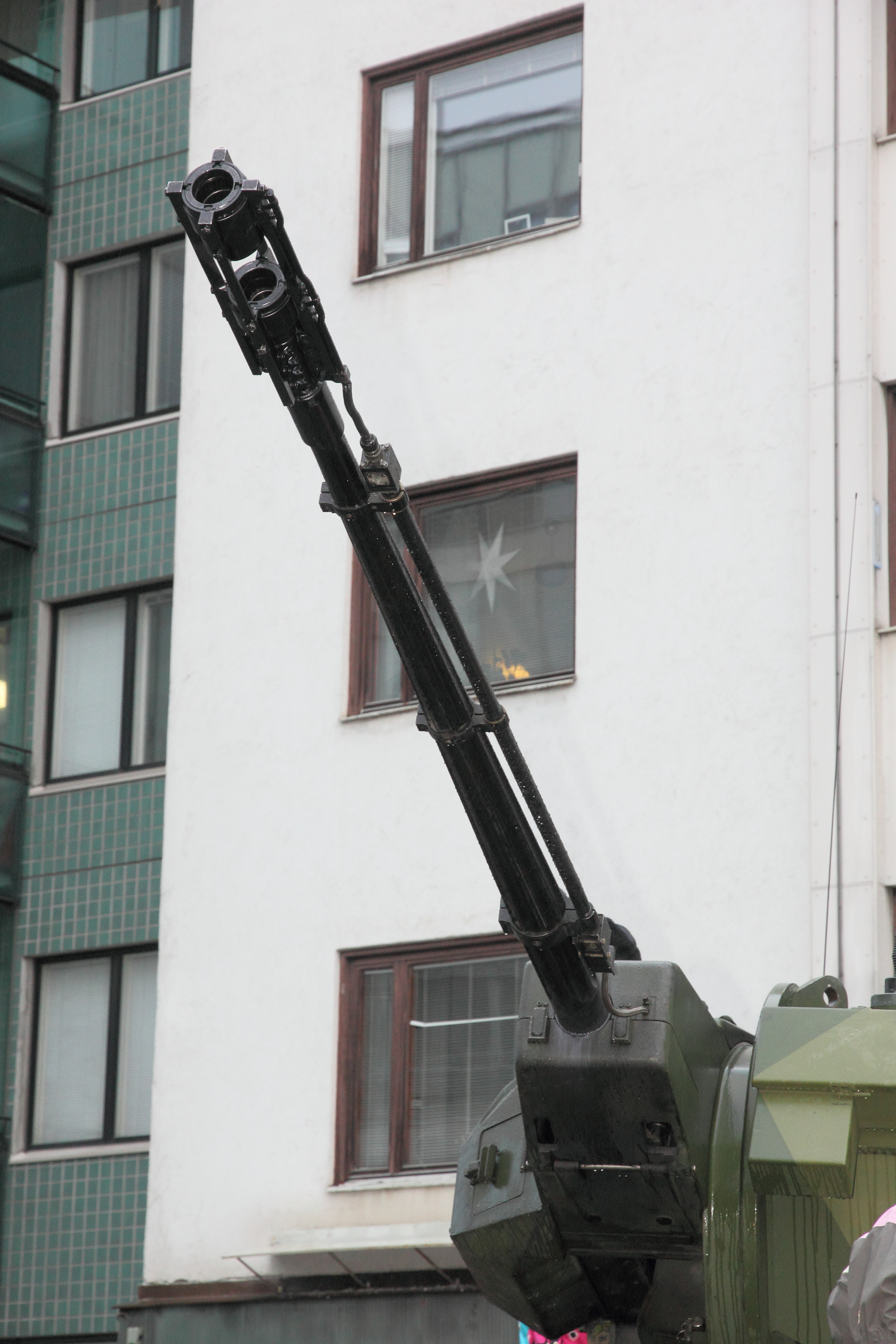 35 mm Oerlikon barrel of Finnish Leopard 2 Marksman (ItPsv 90 Marksman) Ps 473-100 self-propelled anti-aircraft artillery. Photographed in Jyväskylä on Finnish Independence day 2015.